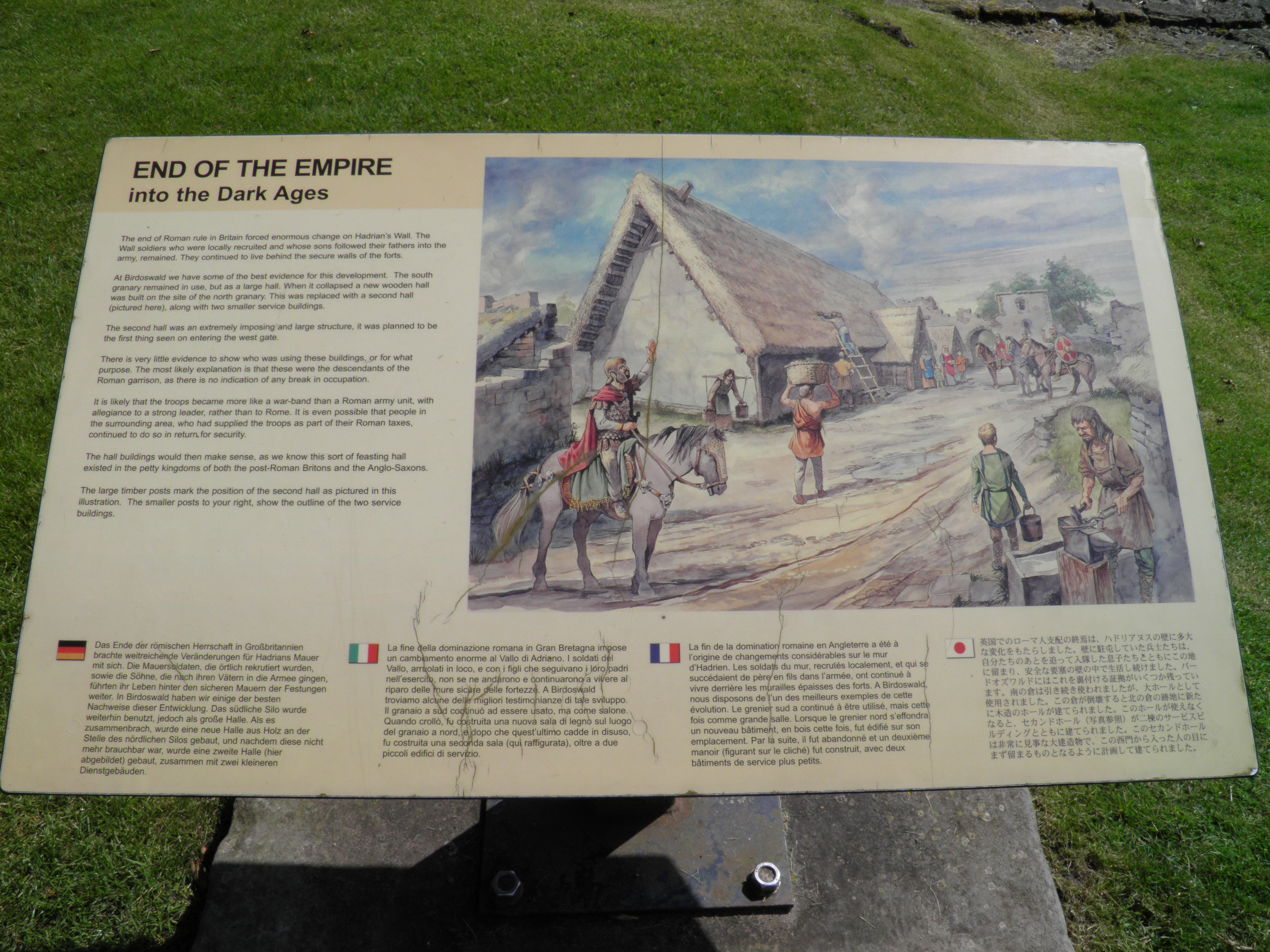 Birdoswald Roman Fort, Hadrian's Wall